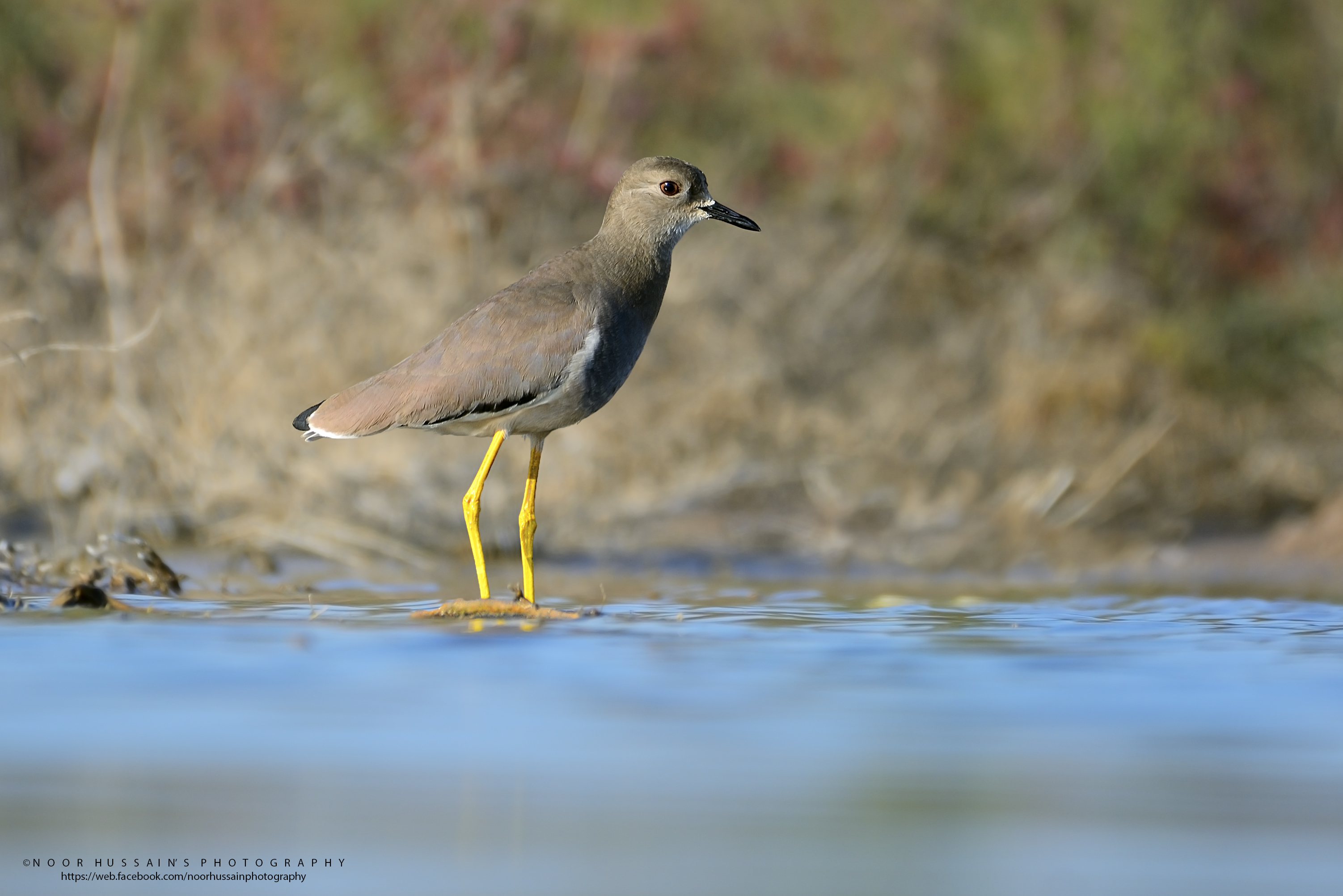 Near Multan,Punjab,Pakistan